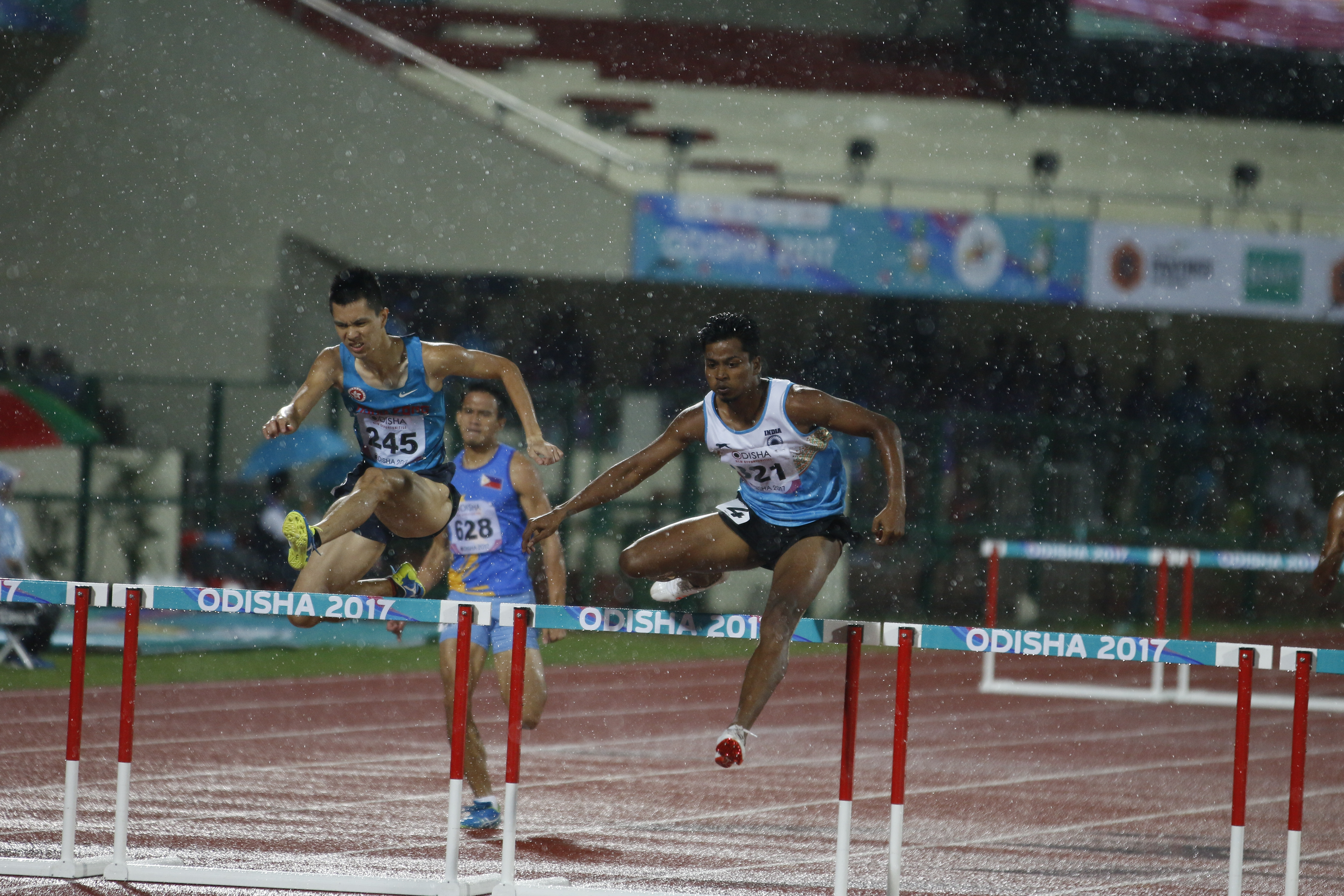 Athletes during 22nd Asian Athletics Championships in Bhubaneswar.